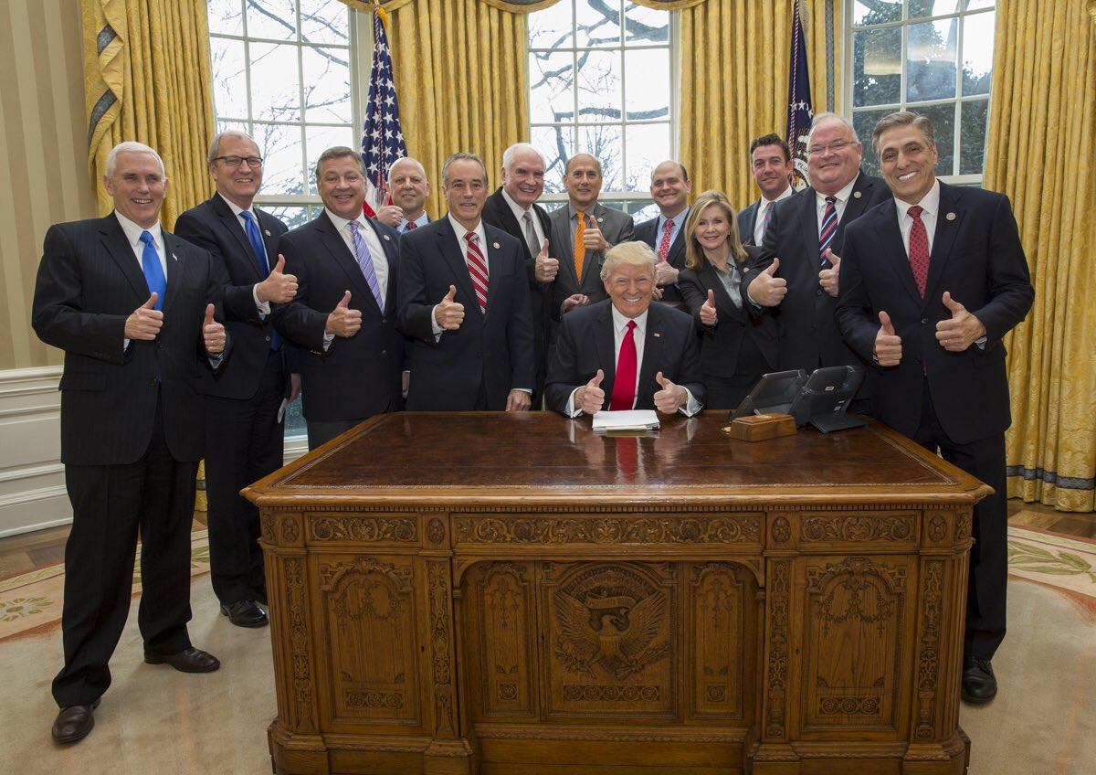 MakeAmericaGreatAgain